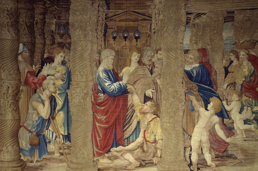 Rapahel tapestry Tapestry Musei Vaticani, Rome